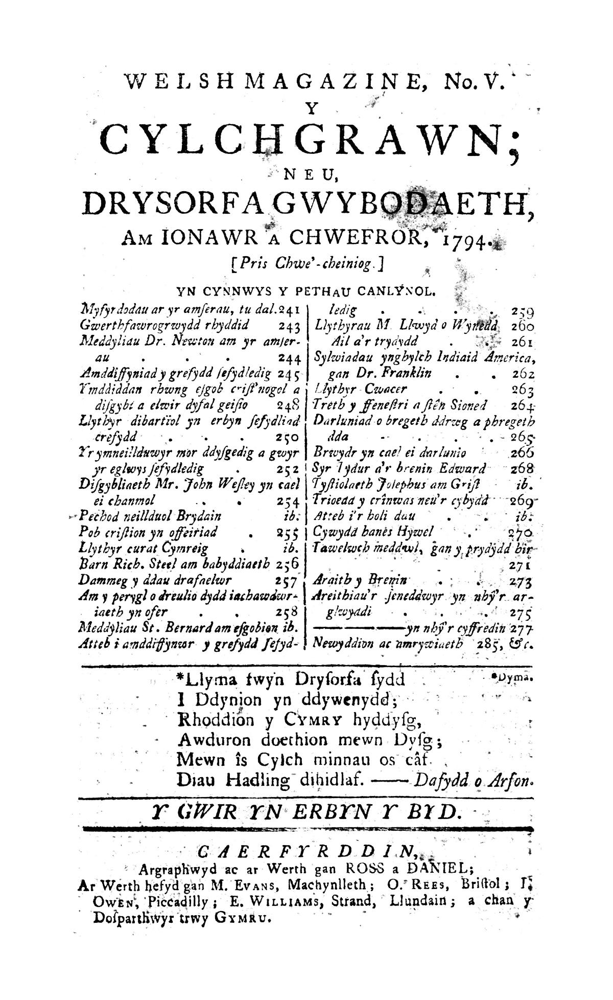 A Welsh language general periodical that published articles on religion, politics and history alongside poetry, biographies and news. It is also notable for articles on slavery and the French Revolution. Originally a quarterly it became a bimonthly publication in 1794. The periodical was edited by the minister and author, Morgan John Rhys (Morgan ab Ioan Rhus, 1760-1804) with the poet and man of letters, David Thomas (Dafydd Ddu Eryri, 1759-1822), a major contributor. Associated titles: Y Cylchgrawn (1793).